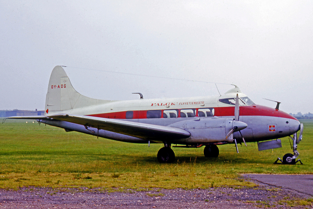 De Havilland DH.104 Dove 5 OY-ADG of Falck Flyvetieneste in 1965